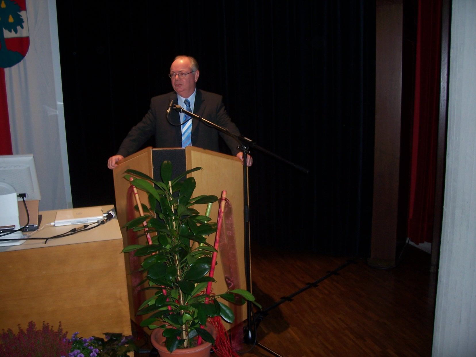 Self-made photo of DI Wolfgang Rümmele, mayor of Dornbirn (1999–2013) during a speech at a graduation ceremony at the FH (university of applied sciences) 2005.